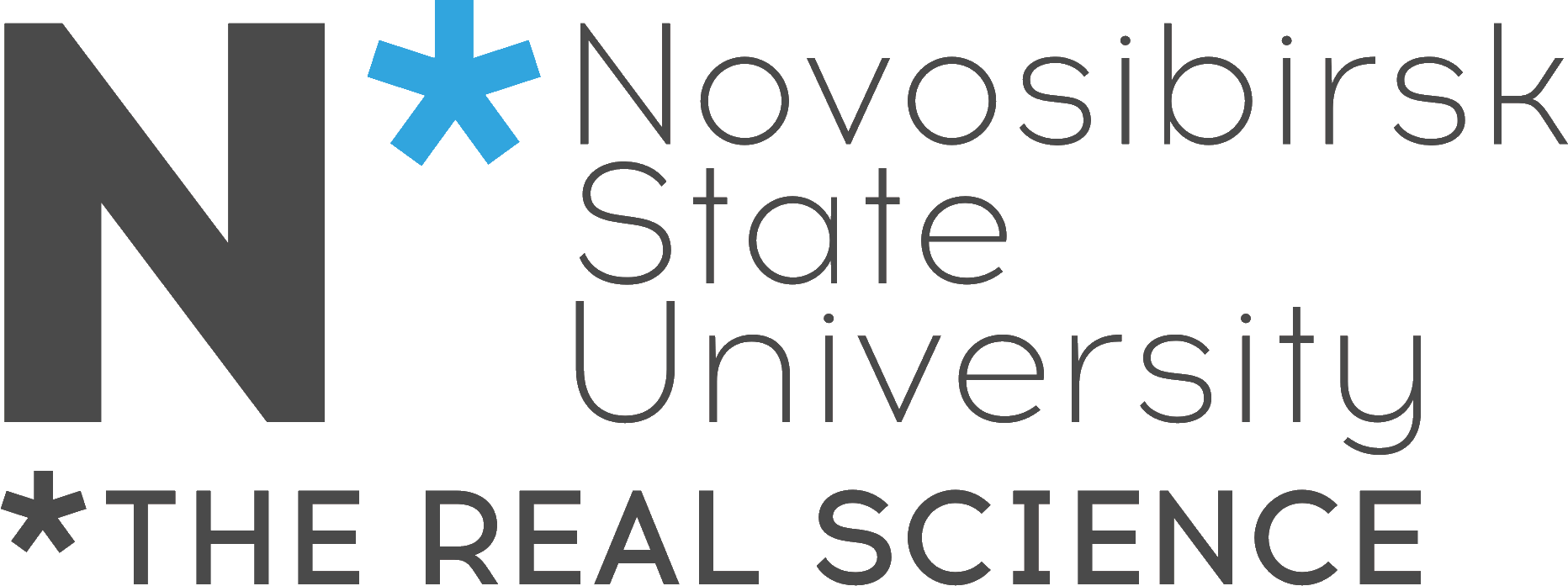 Novosibirsk State University logo